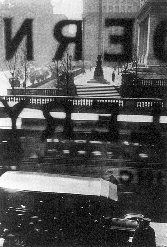 View from the Window of the Modern Gallery toward the New York Public Library